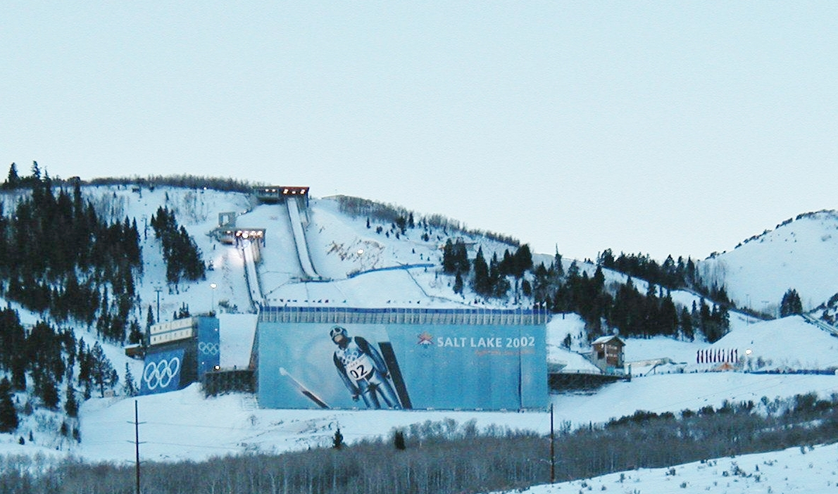 The spectator seating and jumps for the ski jumping competitions at the Utah Olympic Park during the 2002 Winter Olympics.